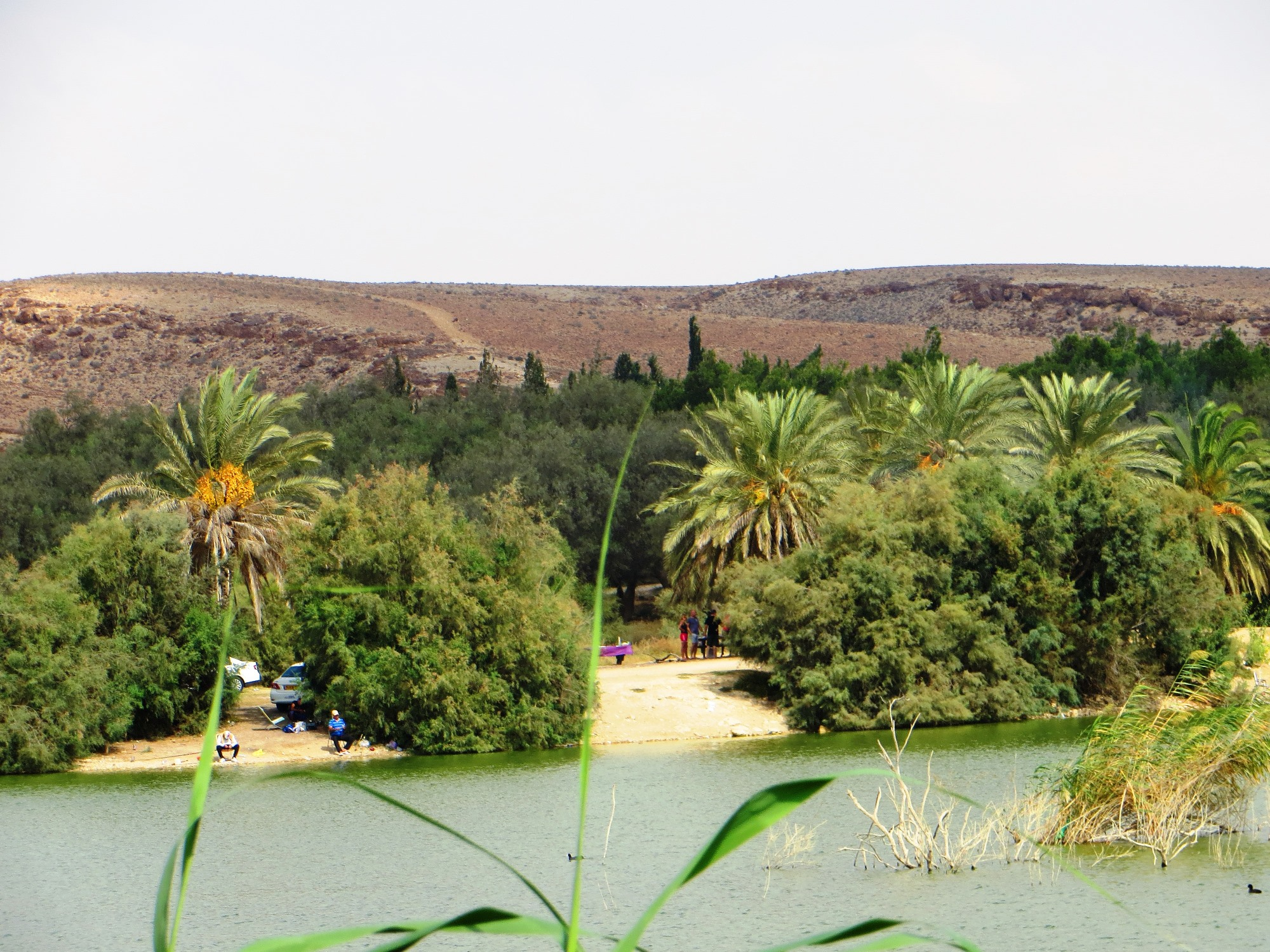 Geography of Israel